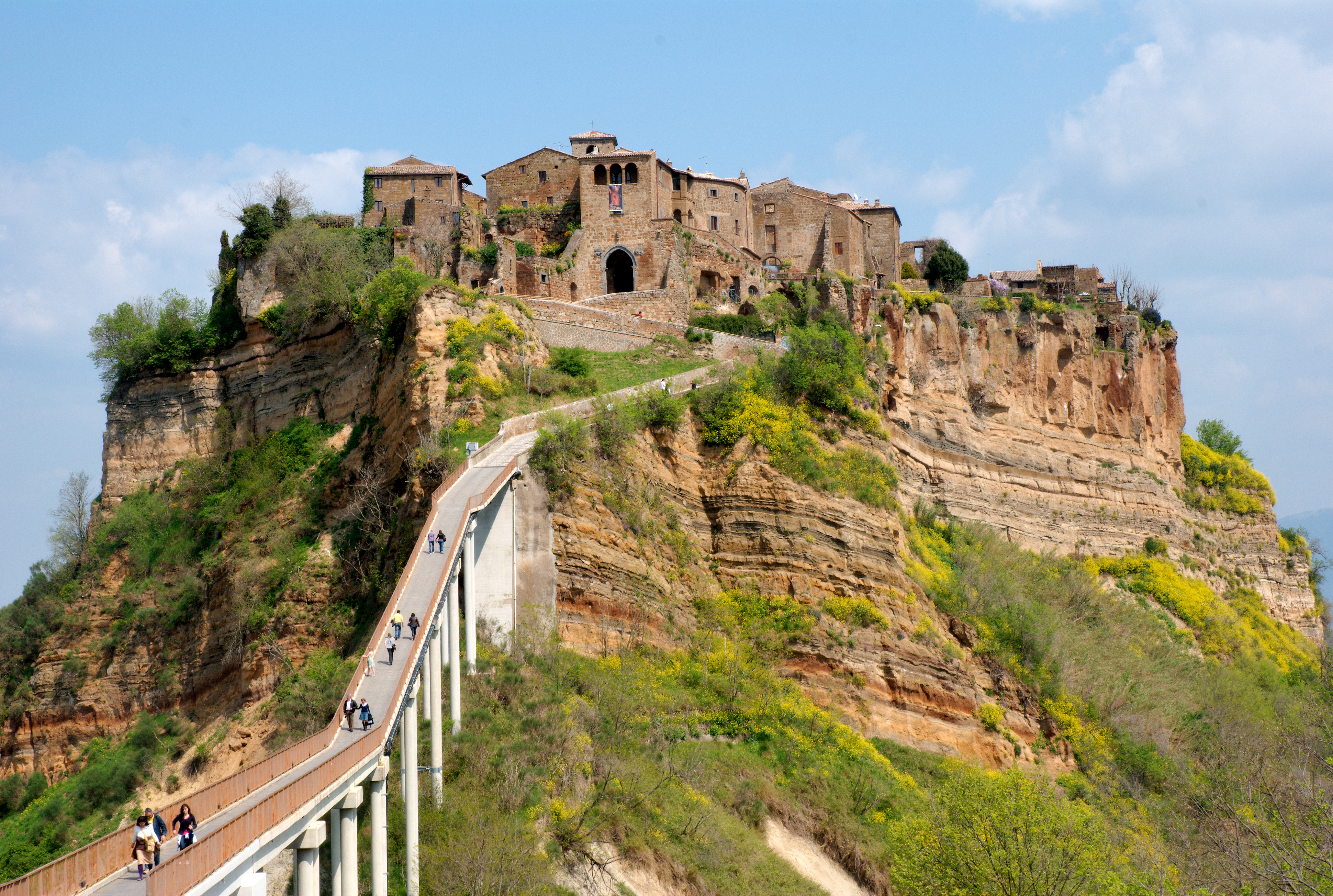 Bagnoregio is a small town in Lazio, Italy. The old part, called "civita", is on the top of the hill.